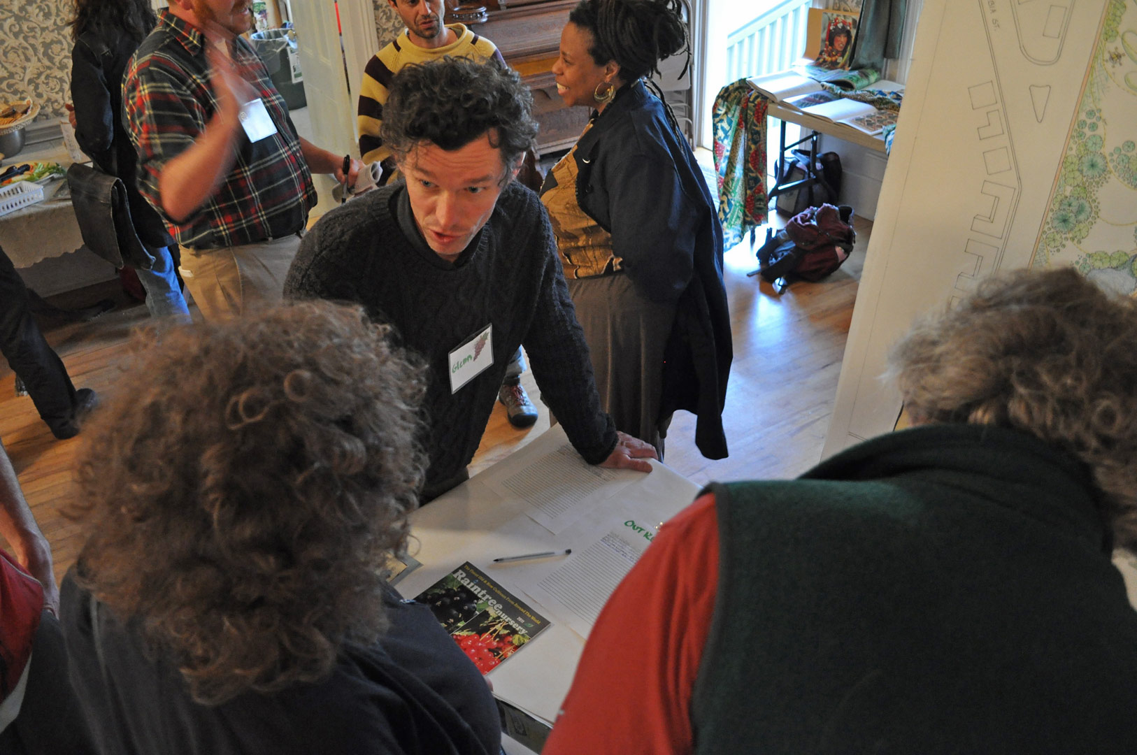 Image from 2011-06-07 Beacon Food Forest workshop at The Garden House on Beacon Hill in Seattle. Glenn Herlihy in picture.